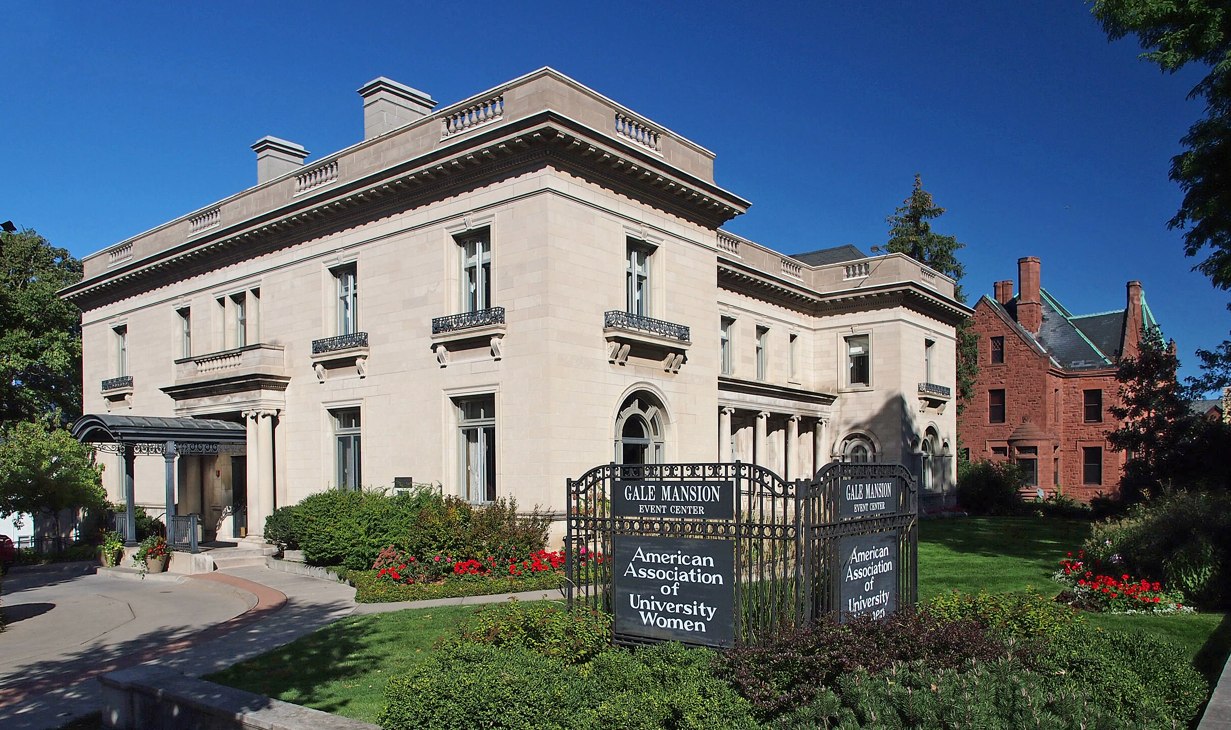 Gale Mansion (left) and Eugene Merrill House (right), 2115 Stevens Ave S and 2116 Second Ave S respectively, Washburn-Fair Oaks Mansion District, Minneapolis, Minnesota, USA. Viewed from the southwest.